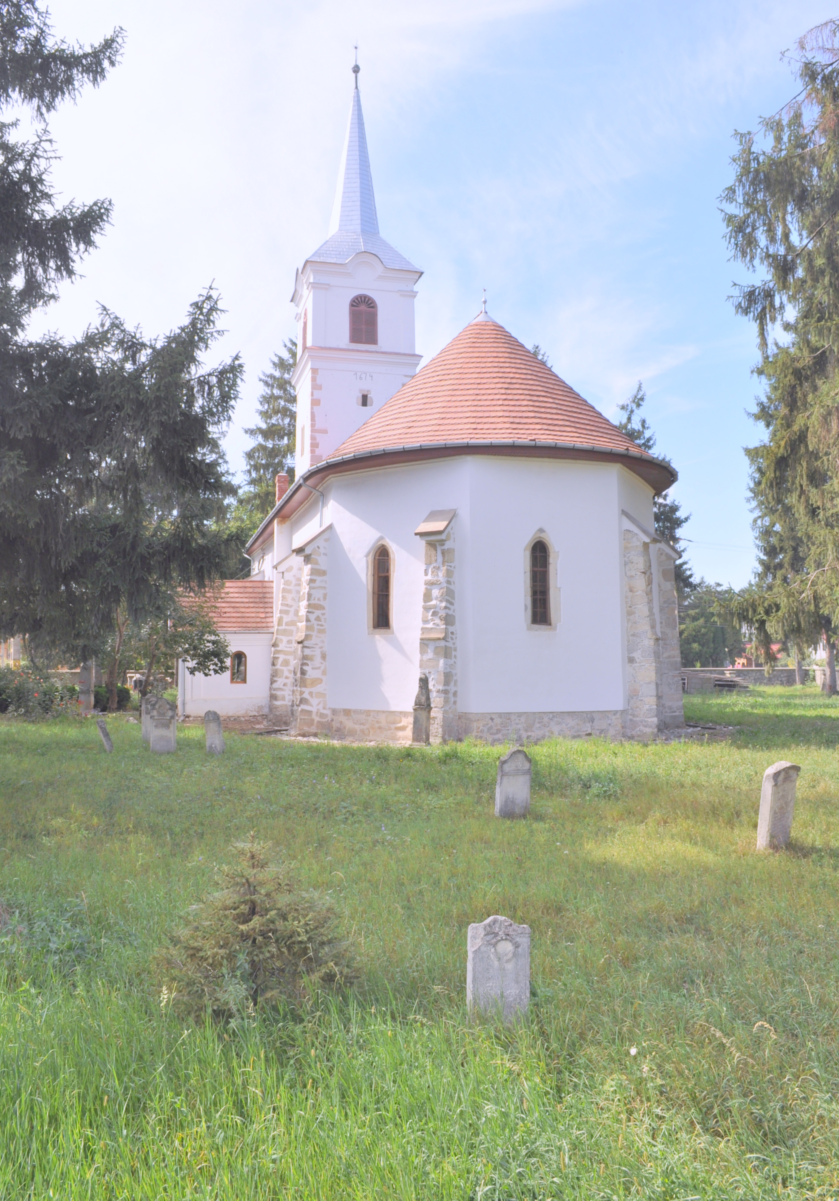 Reformed church in Mihai Viteazu, Cluj County, Romania